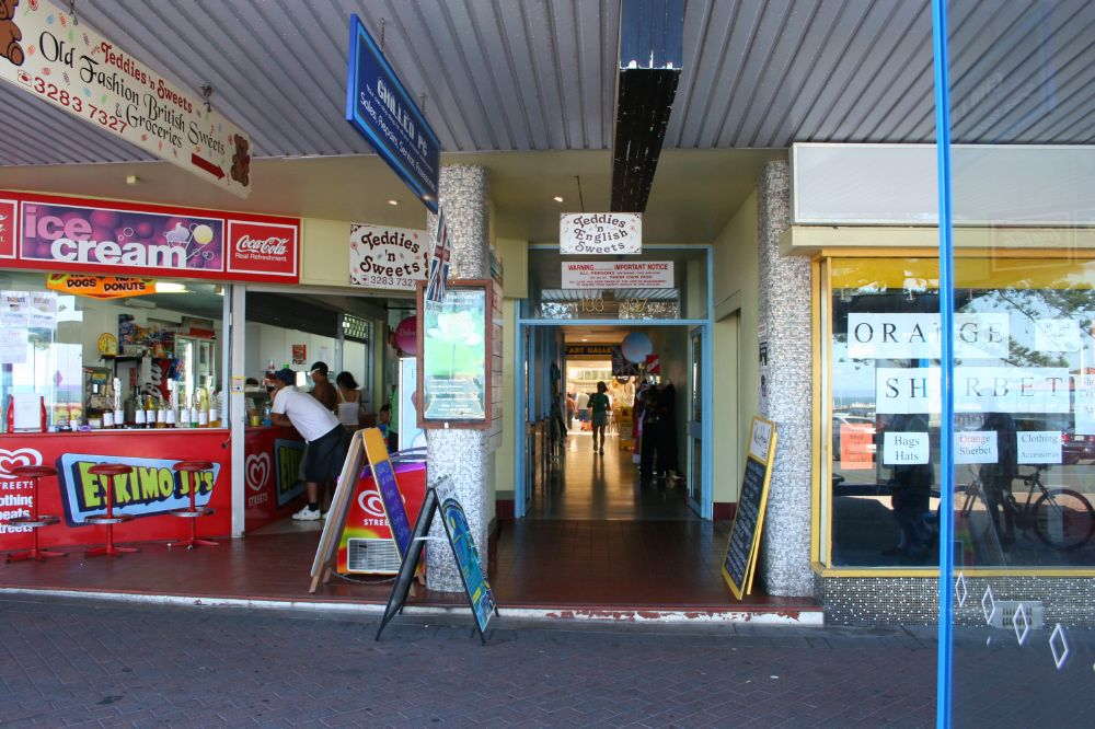 Comino's Arcade (2007) - entrance